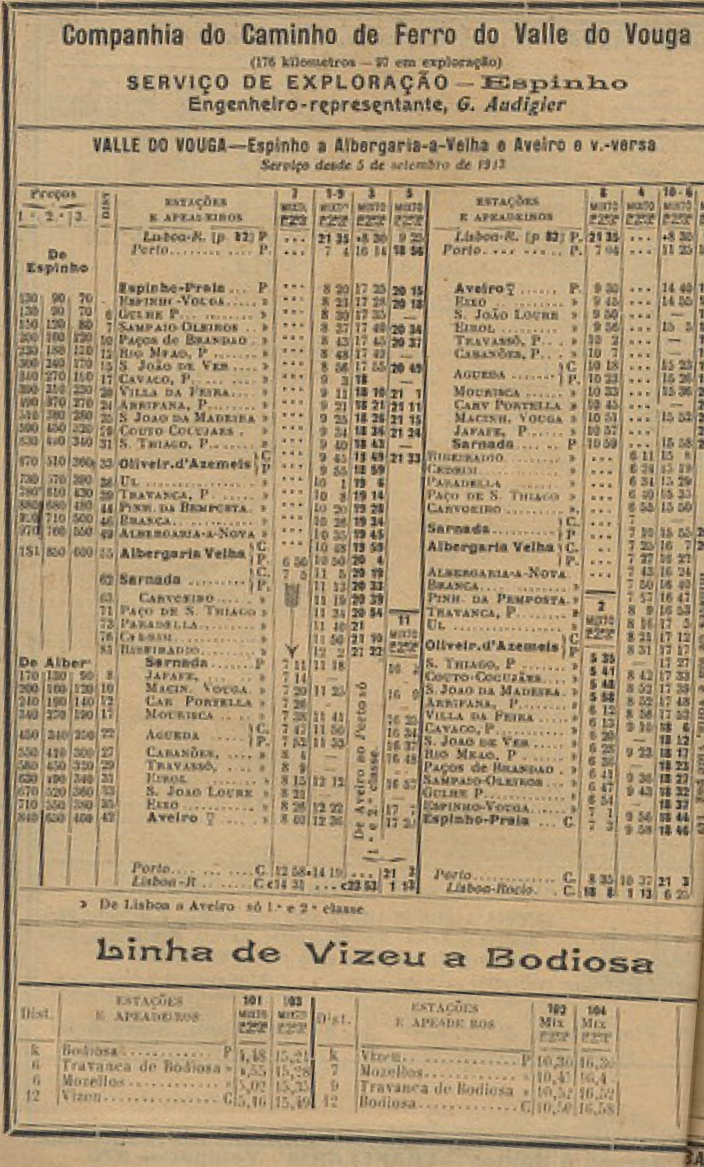 Timetable of the Vouga Railway and its Aveiro branch line, in Portugal, on the 5th September 1913. At the time, the Vouga railway was incomplete, as the track between Ribeiradio and Bodiosa was still to be built. This image was published on the Guia Official dos Caminhos de Ferro de Portugal No. 168, of October 1913, and scanned by the Biblioteca Nacional de Portugal.